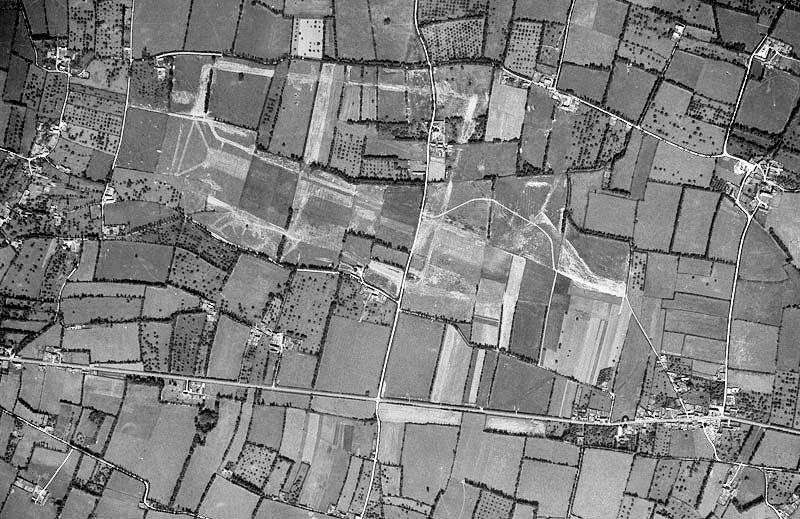 Deux Jumeaux Airfield - A4, France, after dismantling